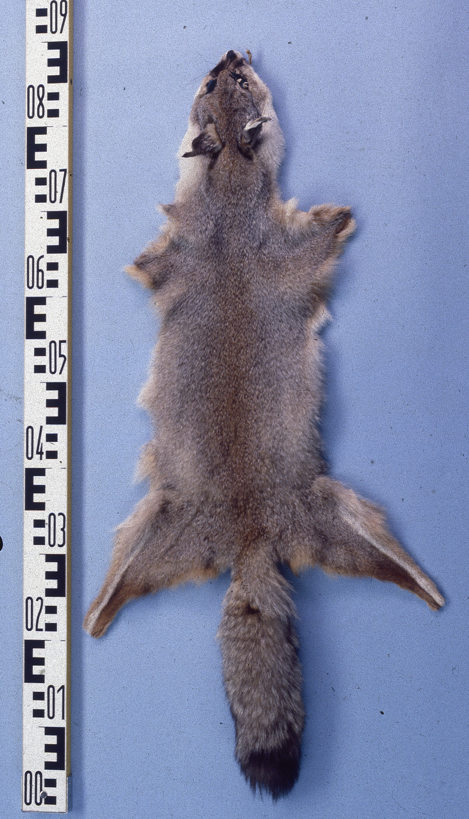 Bengal fox (Vulpes bengalensis). Fur skin collection, Bundes-Pelzfachschule, Frankfurt/Main, Germany